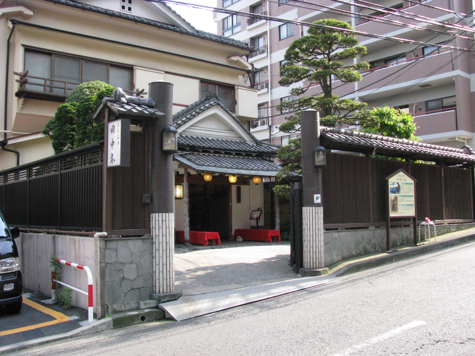 This Japanese-style restaurant is Tanaka-ya. Tanaka-ya is located in Kanagawa Jyuku on Tokaido. Yokohama, Kanagawa, Japan.